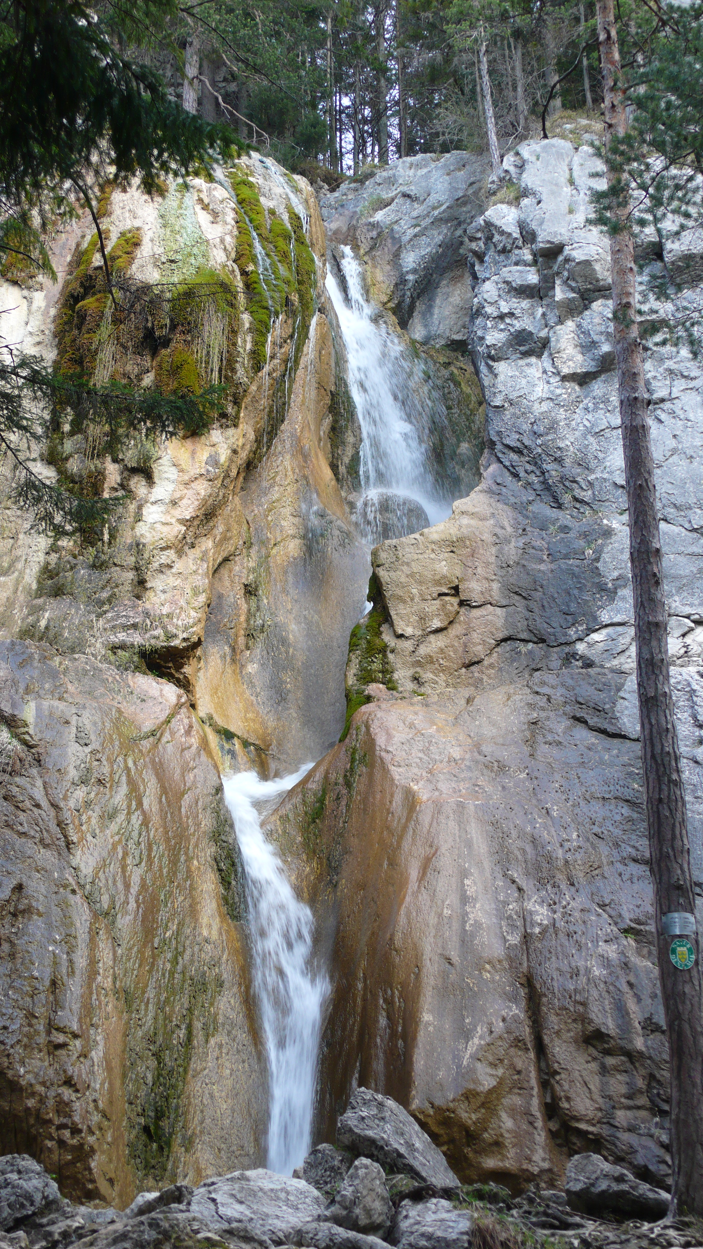 Puchberg Wasserfall This media shows the natural monument in Lower Austria with the ID NK-107.